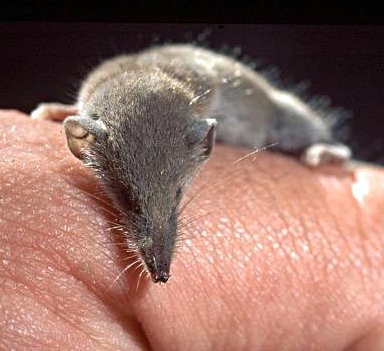 Suncus etruscus, the smallest mammal of the world. Portrait over hand for comparison.